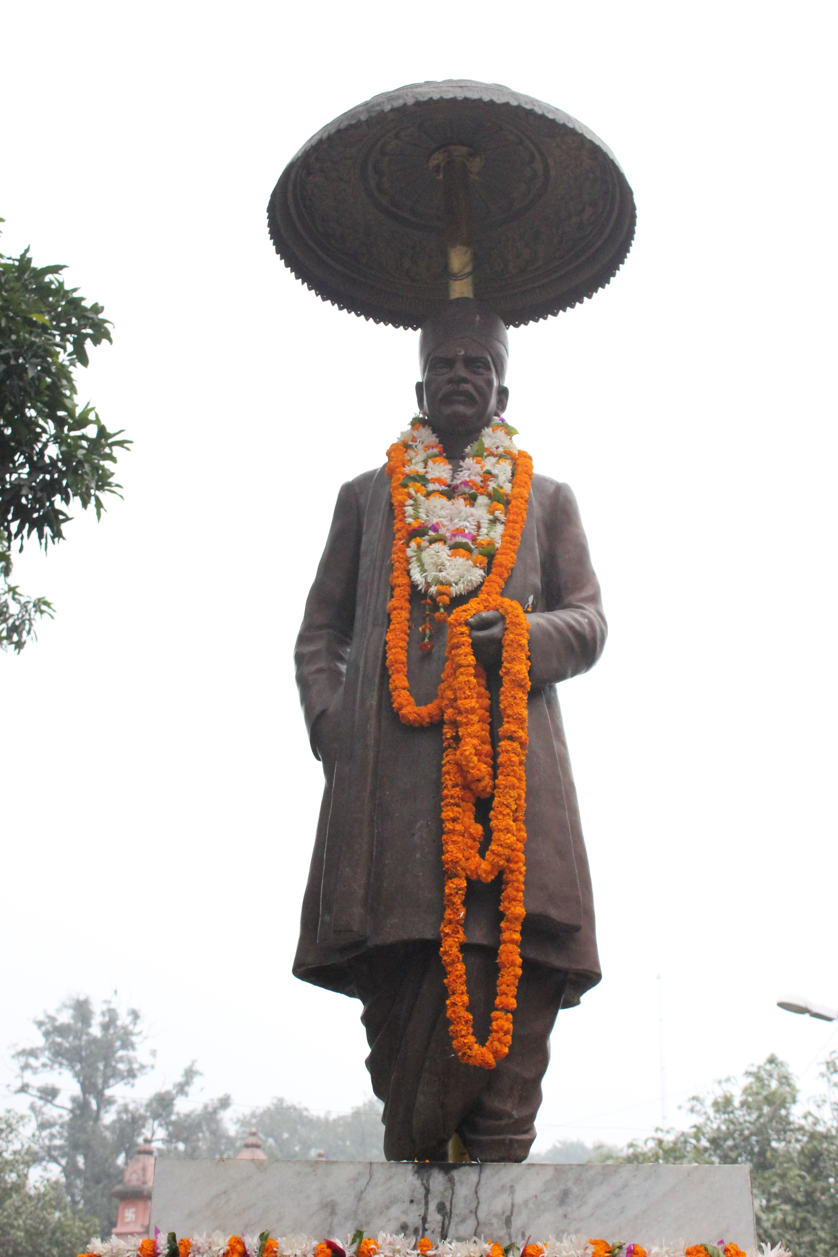 Statue of Pandit Madan Mohan Malaviya in compounds of Shri Kashi Vishwanath Mandir, BHU